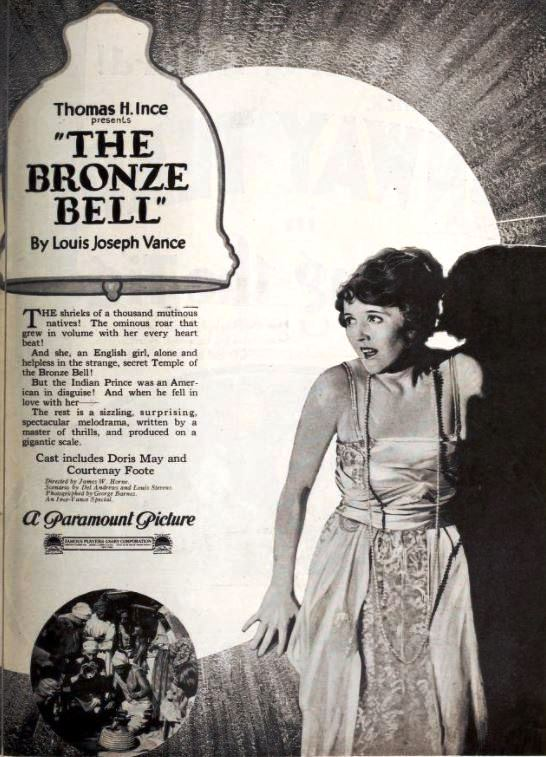 Advertisement for the American drama film The Bronze Bell (1921) with Doris May, on page 7 of the May 14, 1921 Exhibitors Herald.